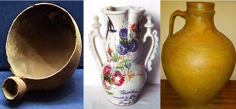 Three pieces of Spanish pottery of symbolism cortejo-compromiso - possession between man and woman: left: Canary Ganigo; Centre: jar of girlfriend (Lorca, Murcia); and right: jug of girlfriend Talarrubias (Badajoz).